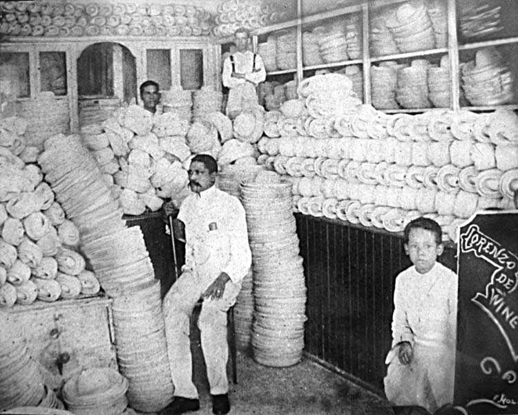 Old photograph after airbrushing